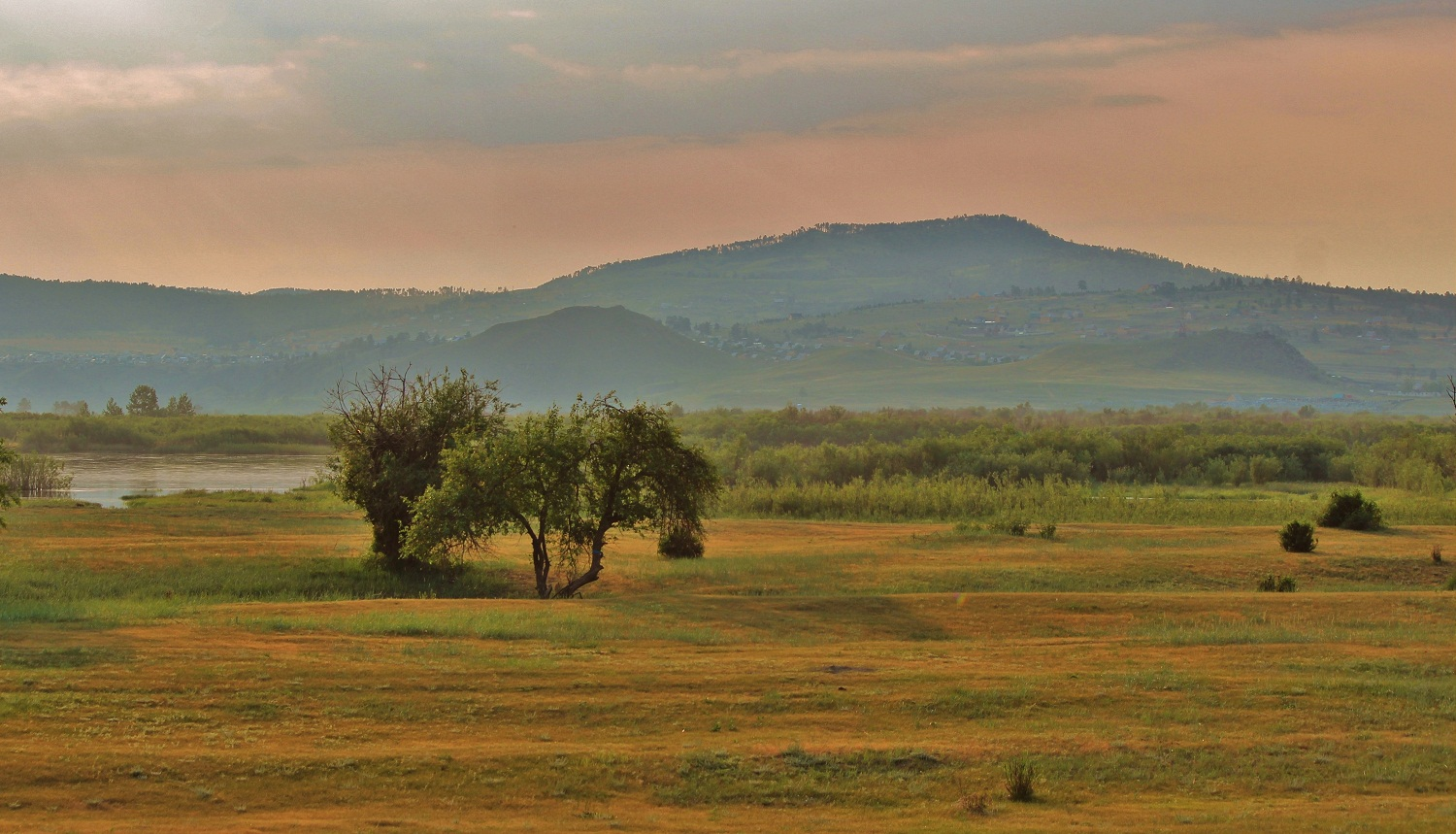 Иволгинское городище. Бурятия, Улан-Удэ